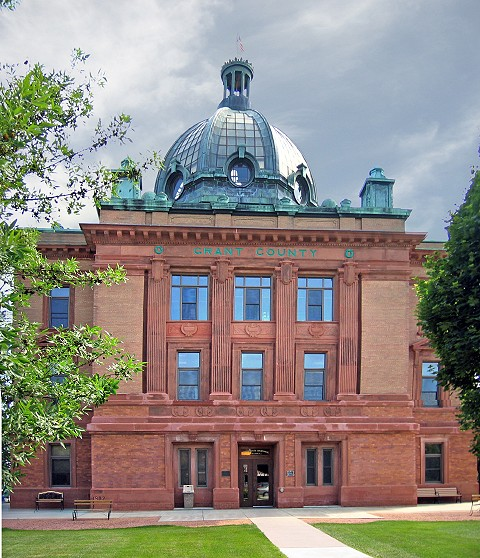 The Grant County Courthouse (Wisconsin) in Lancaster, Wisconsin. Copyright ©2005 by Daniel P. B. Smith and licensed under the GFDL. It is listed on the National Register of Historic Places.